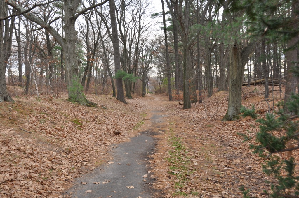 This dry section of the Middlesex Canal is located in Winchester, Massachusetts, near the Senator Charles E. Shannon Jr. Memorial Beach (formerly Sandy Beach) in the Mystic River Reservation.